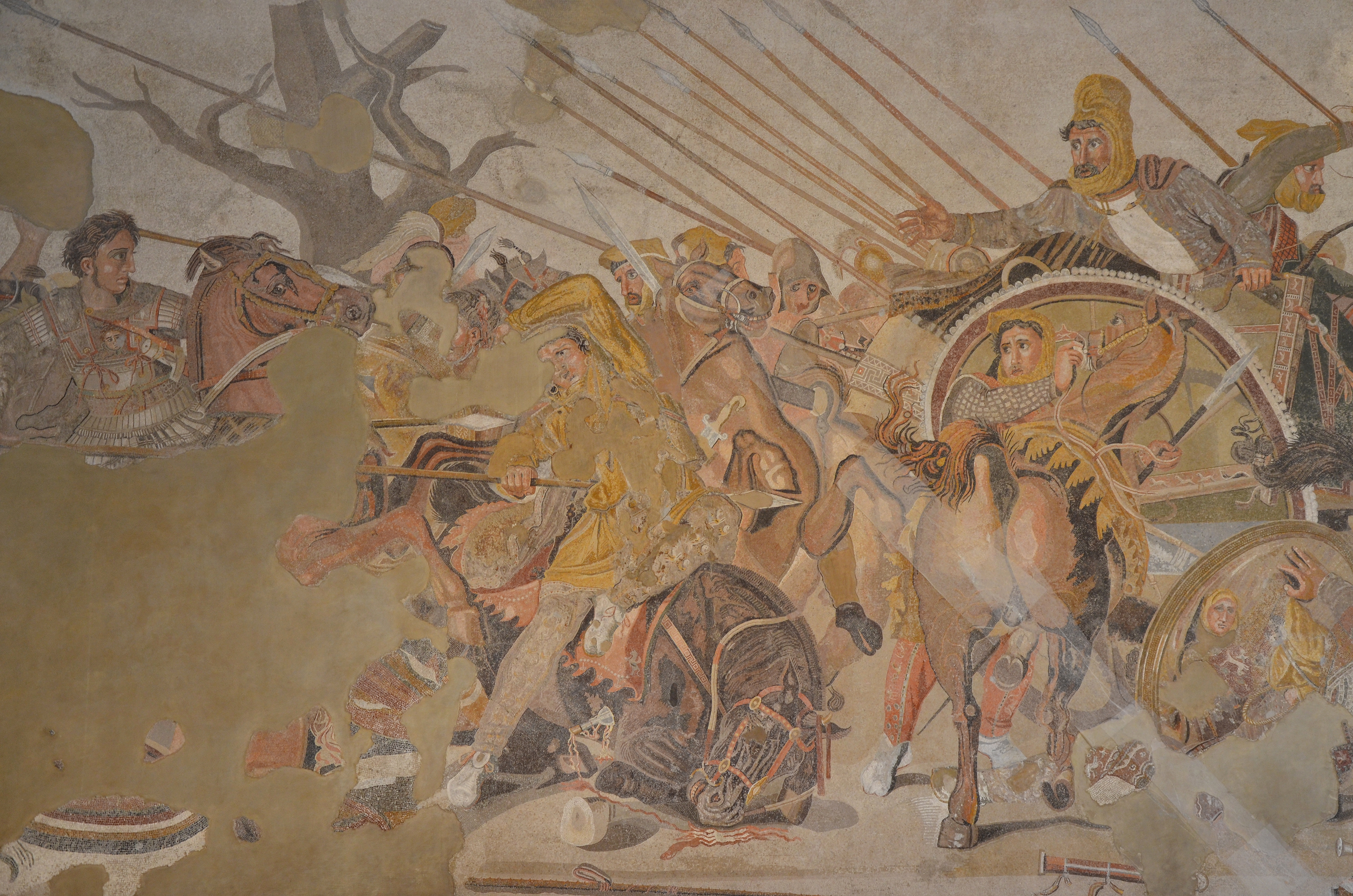 The Alexander Mosaic, dating from circa 100 BC, is a Roman floor mosaic originally from the House of the Faun in Pompeii. It depicts a battle between the armies of Alexander the Great and Darius III of Persia and measures 2.72 x 5.13m (8 ft 11in x 16 ft 9in). The original is preserved in the Naples National Archaeological Museum. The mosaic is believed to be a copy of an early 3rd century BC Hellenistic painting, possibly by Philoxenos of Eretria.